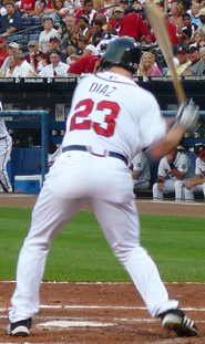 Picture I took of Matt Diaz on 6-5-07 22:09, 7 June 2007 . . Chrisjnelson . . 185×311 (119,456 bytes)